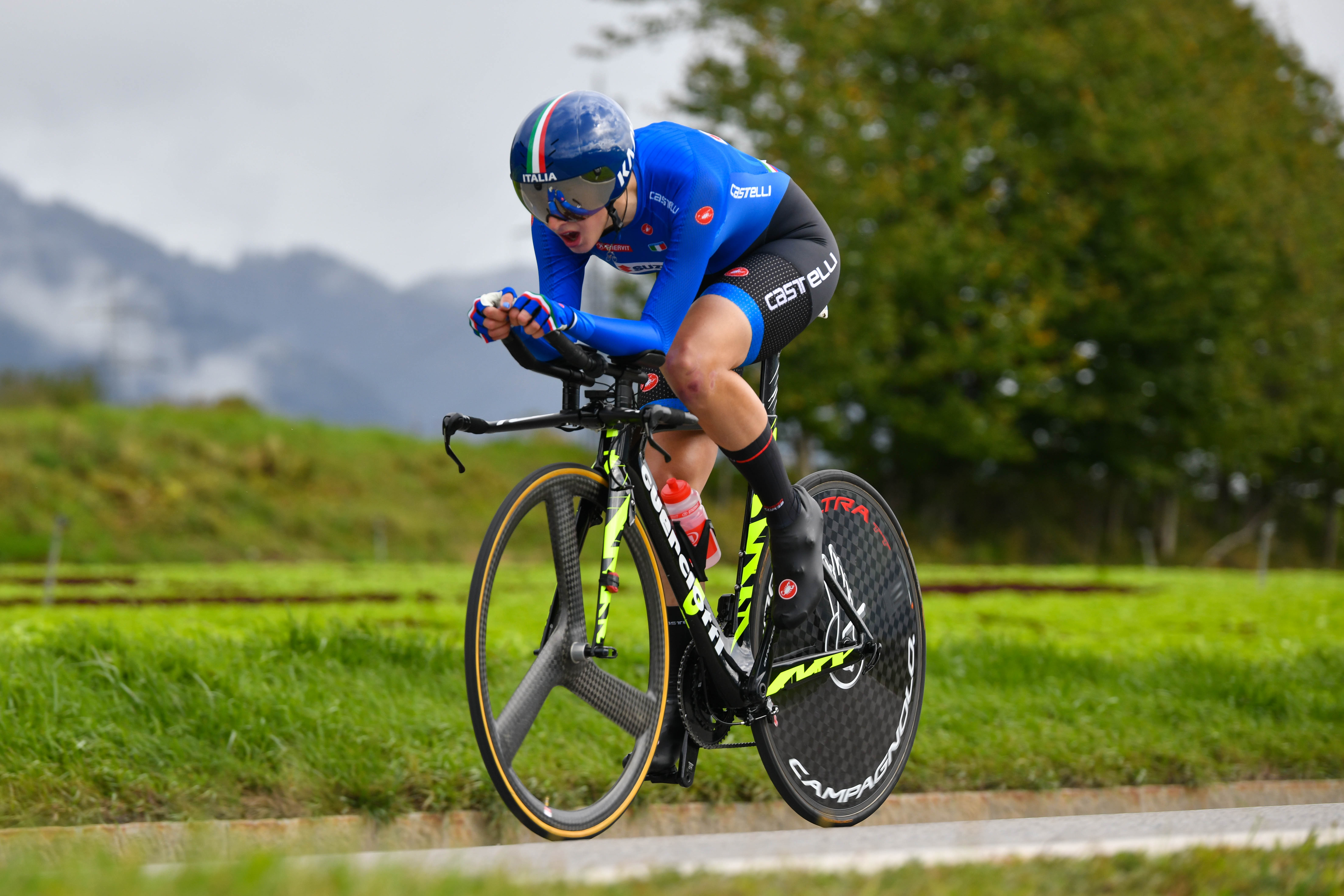 2018 UCI Road World Championships Innsbruck/Tirol Women Juniors Individual Time Trial. Picture shows: Vittoria Guazzini (ITA)